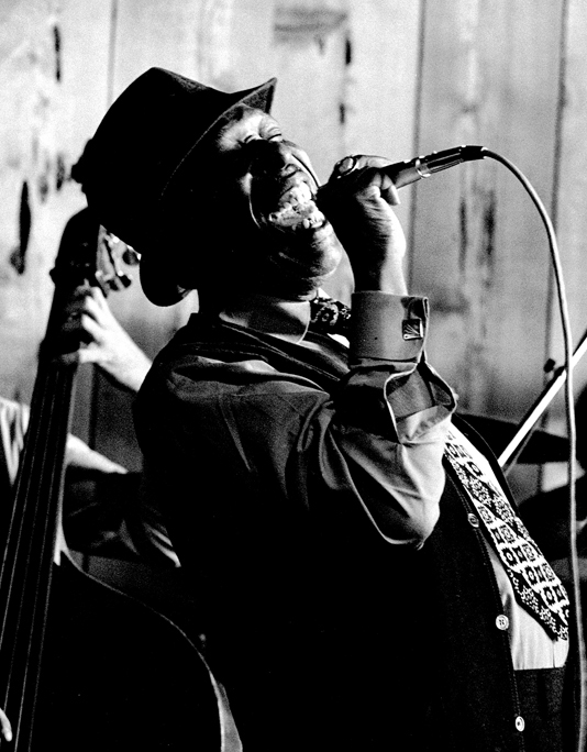 Eddie Jefferson playing at Half Moon Bay California 1978-10-01 (Uploaded in 2010) Brian McMillen